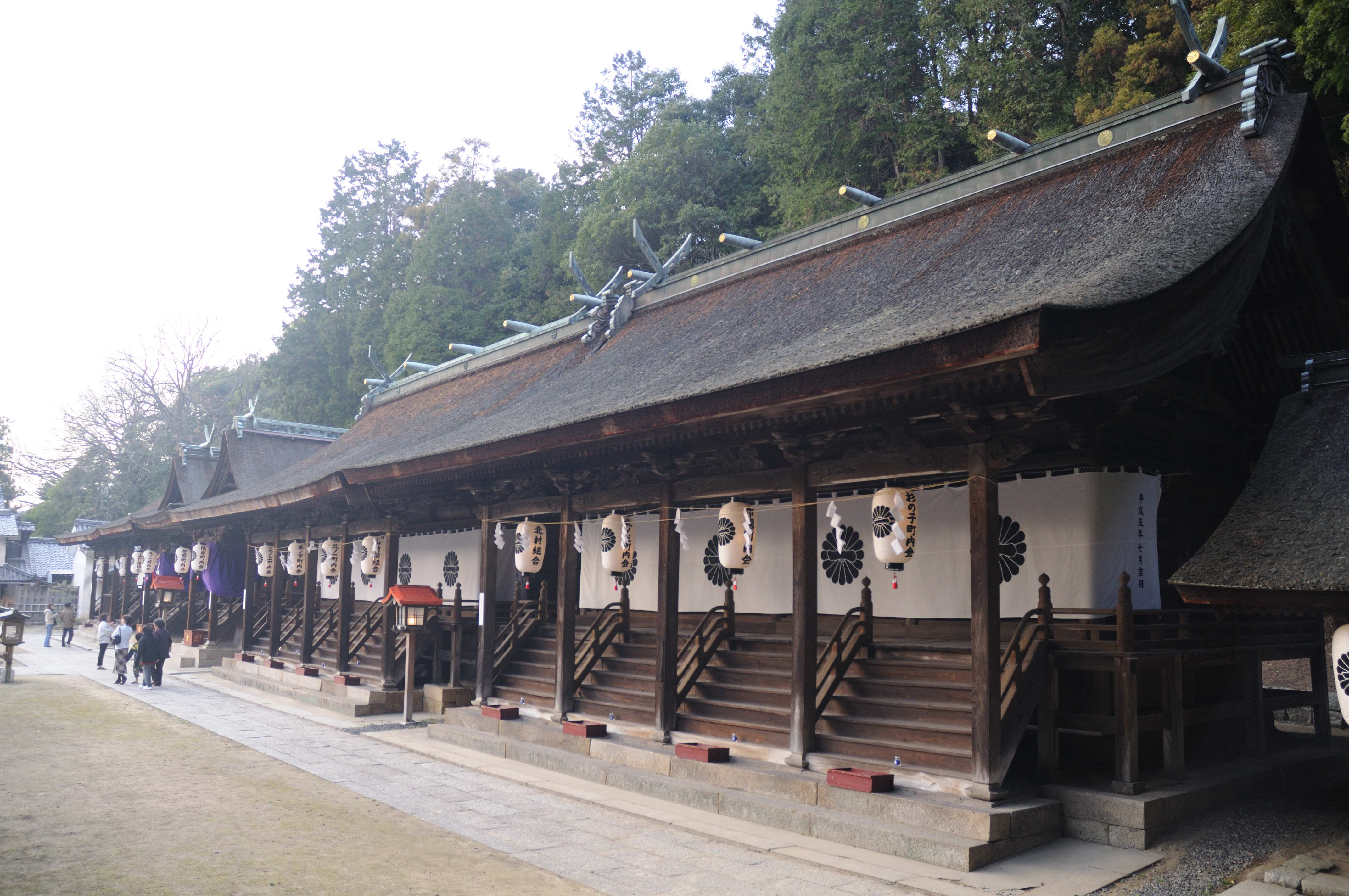 the main shrines